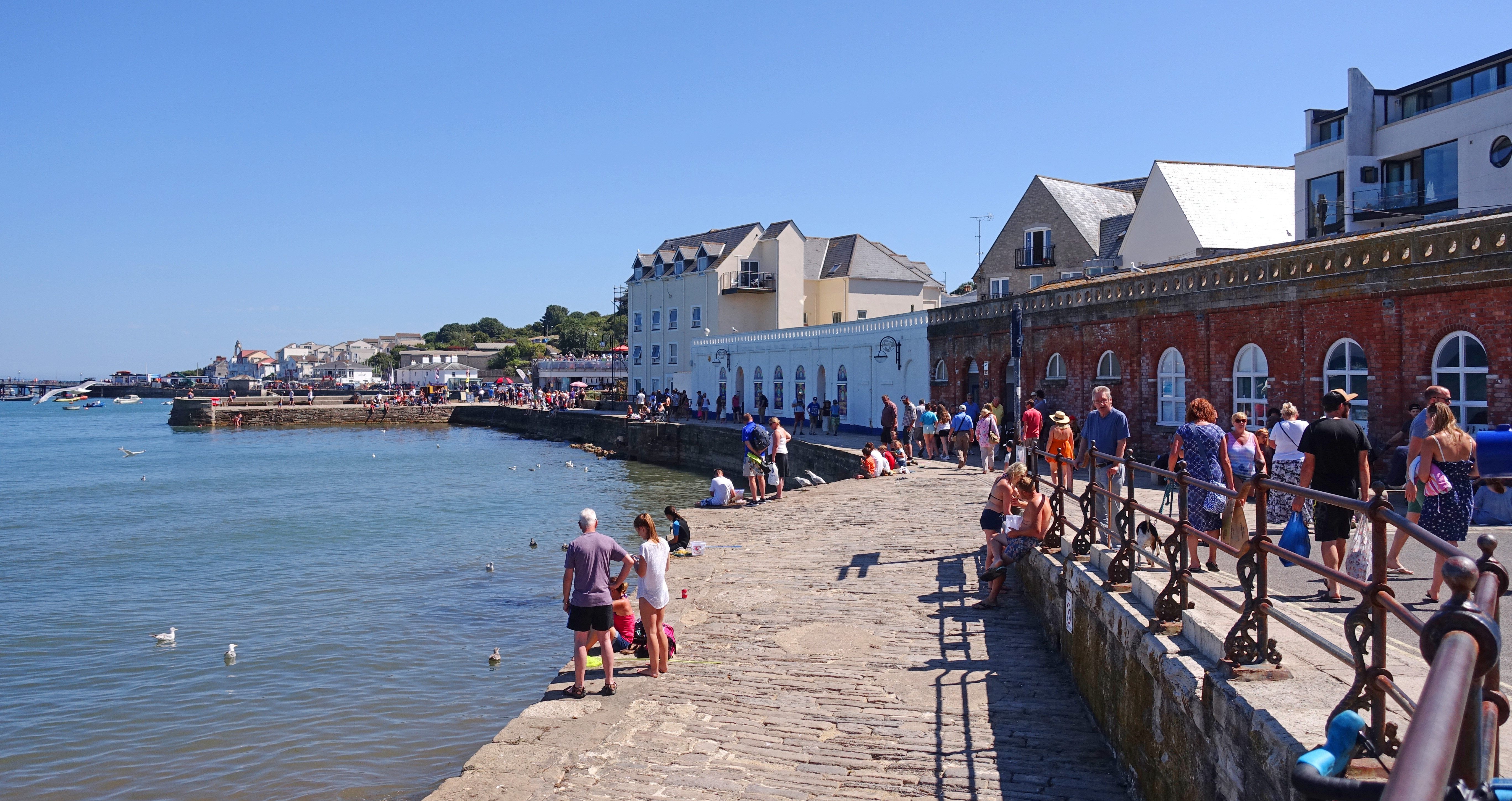 Swanage.